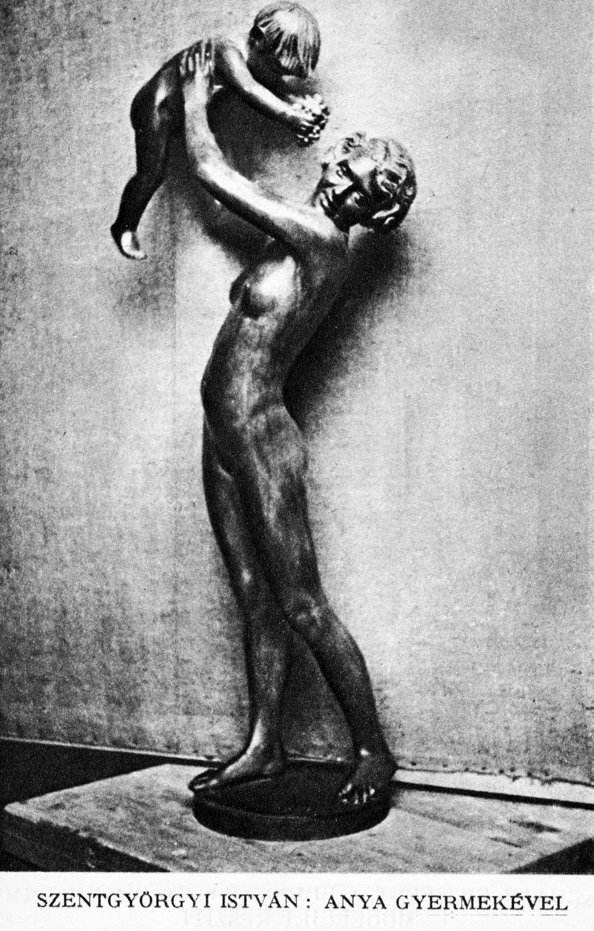 Istvan Szentgyörgyi (1881-1938) Hungarian sculptor Mother and child - statue (1938)